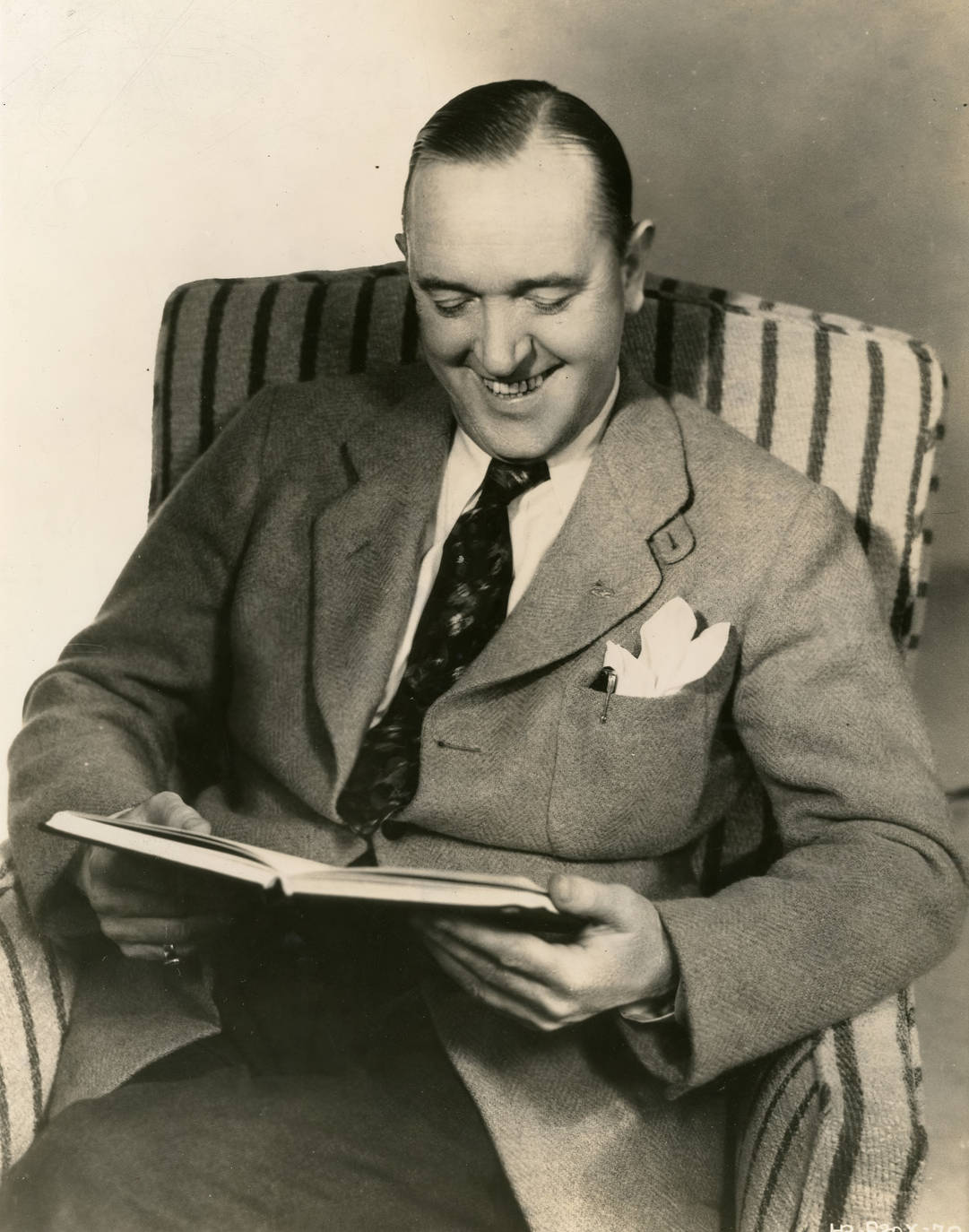 Stan Laurel, silent film actor Subjects: comedians